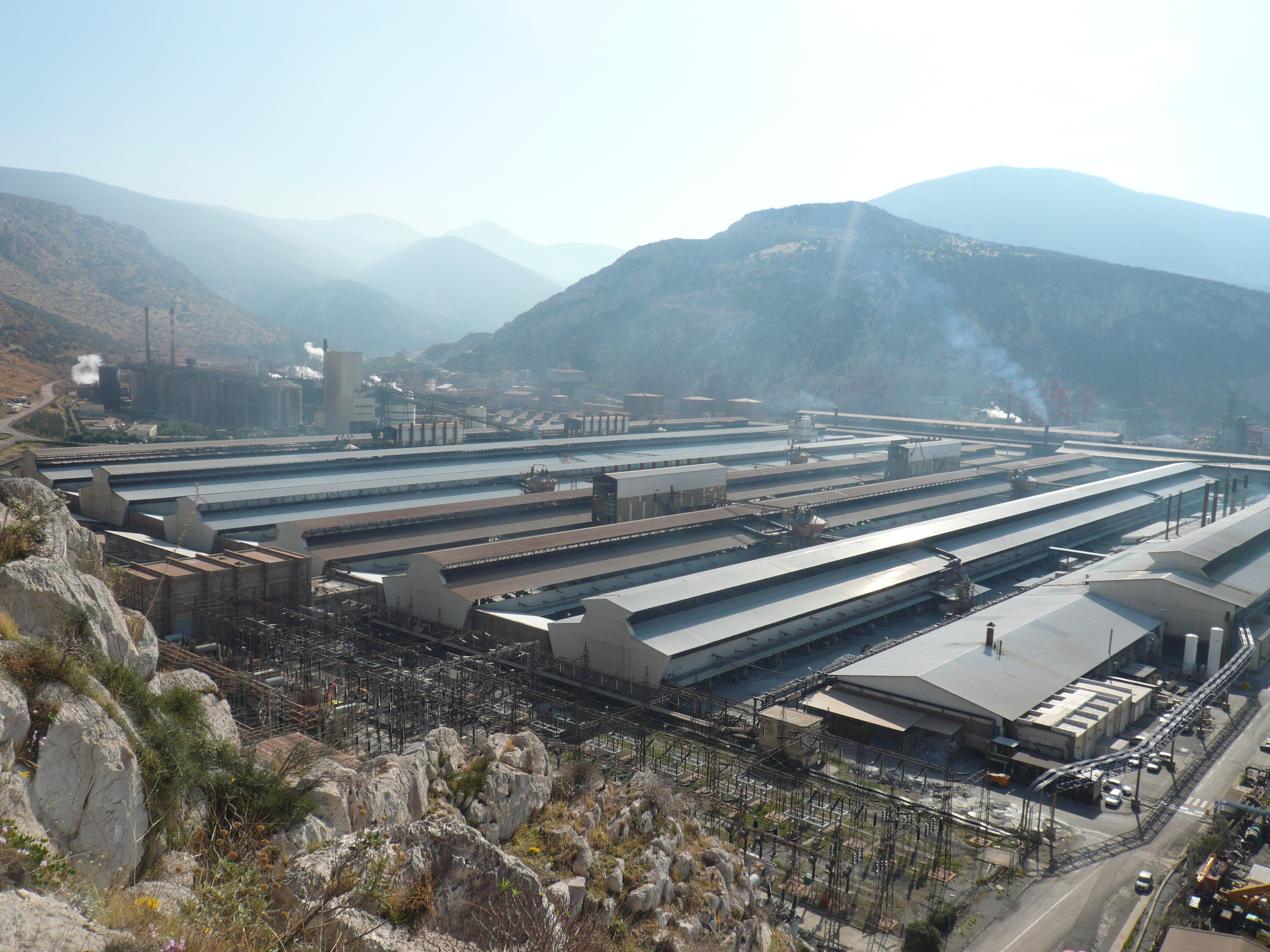 Aluminium de Grece, Greek aluminum company